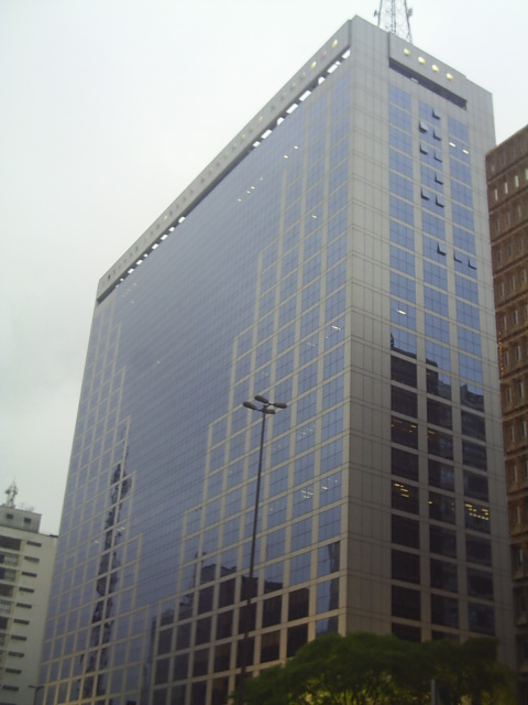 São Luís Gonzaga Building, in São Paulo City.